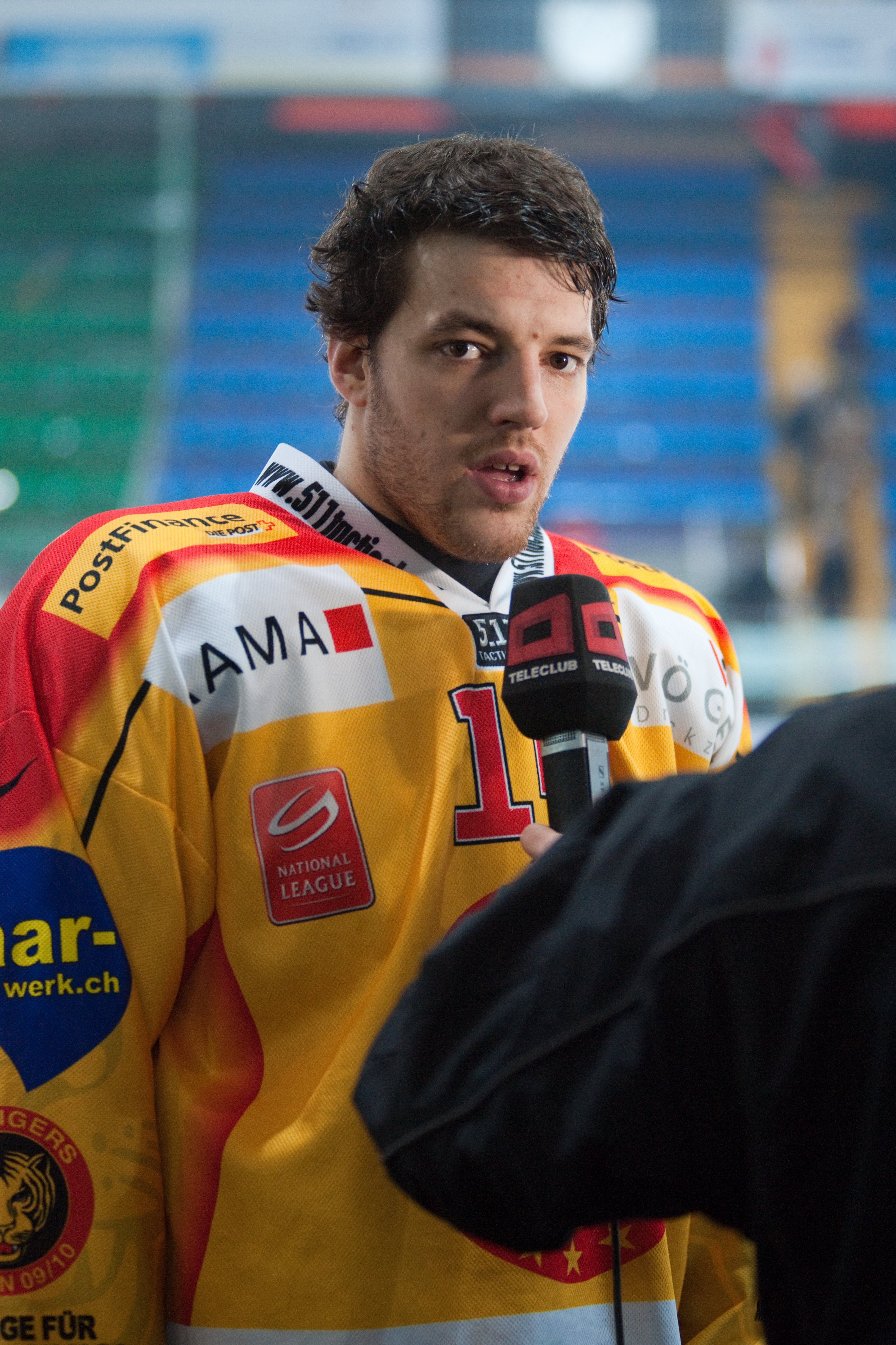 Mathias Bieber, Fribourg-Gottéron vs. Langnau Tigers, 15th January 2010.